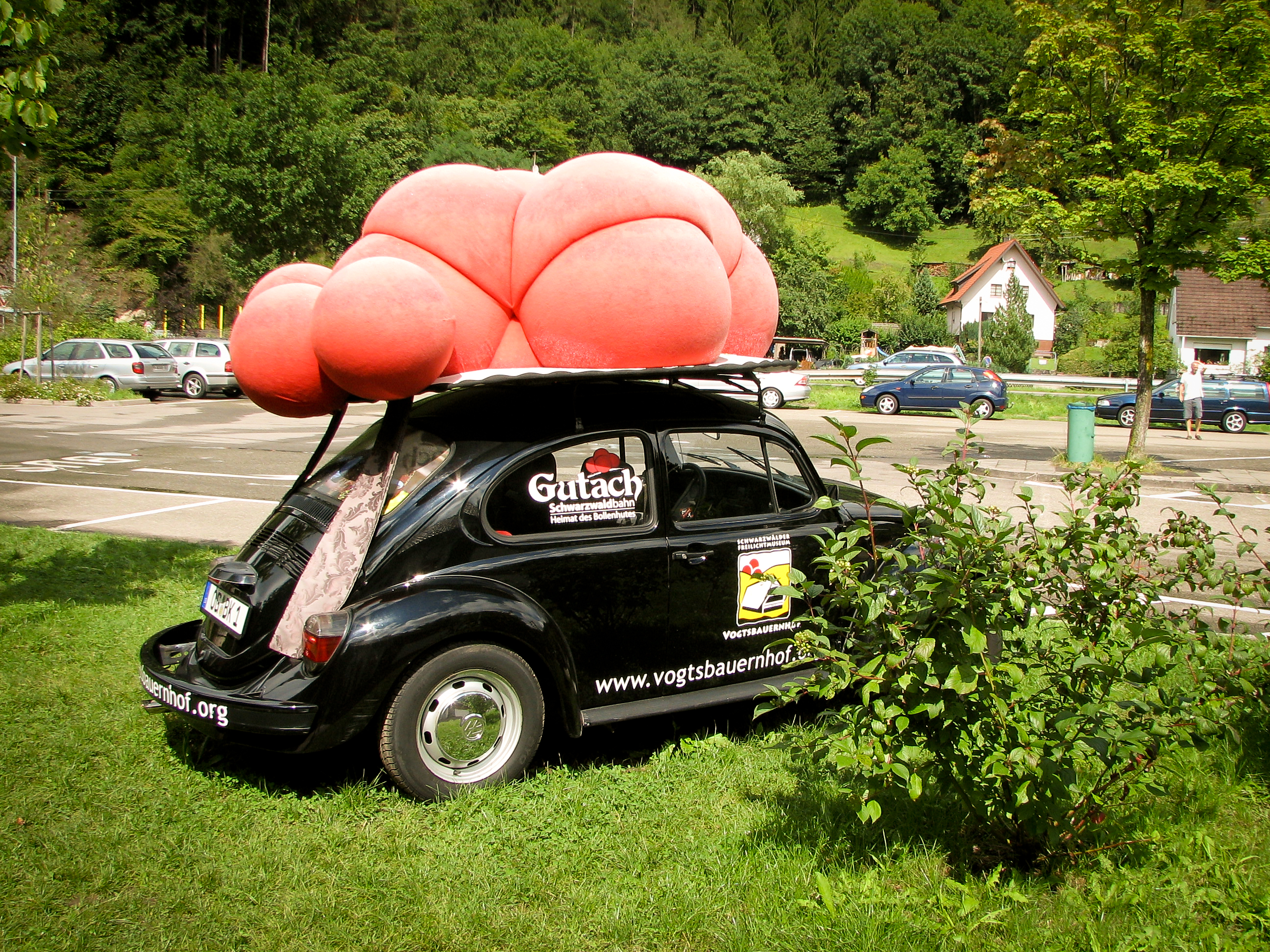 Black Forest beetle. Promotion for the Black Forest Open Air Museum Vogtsbauernhof.